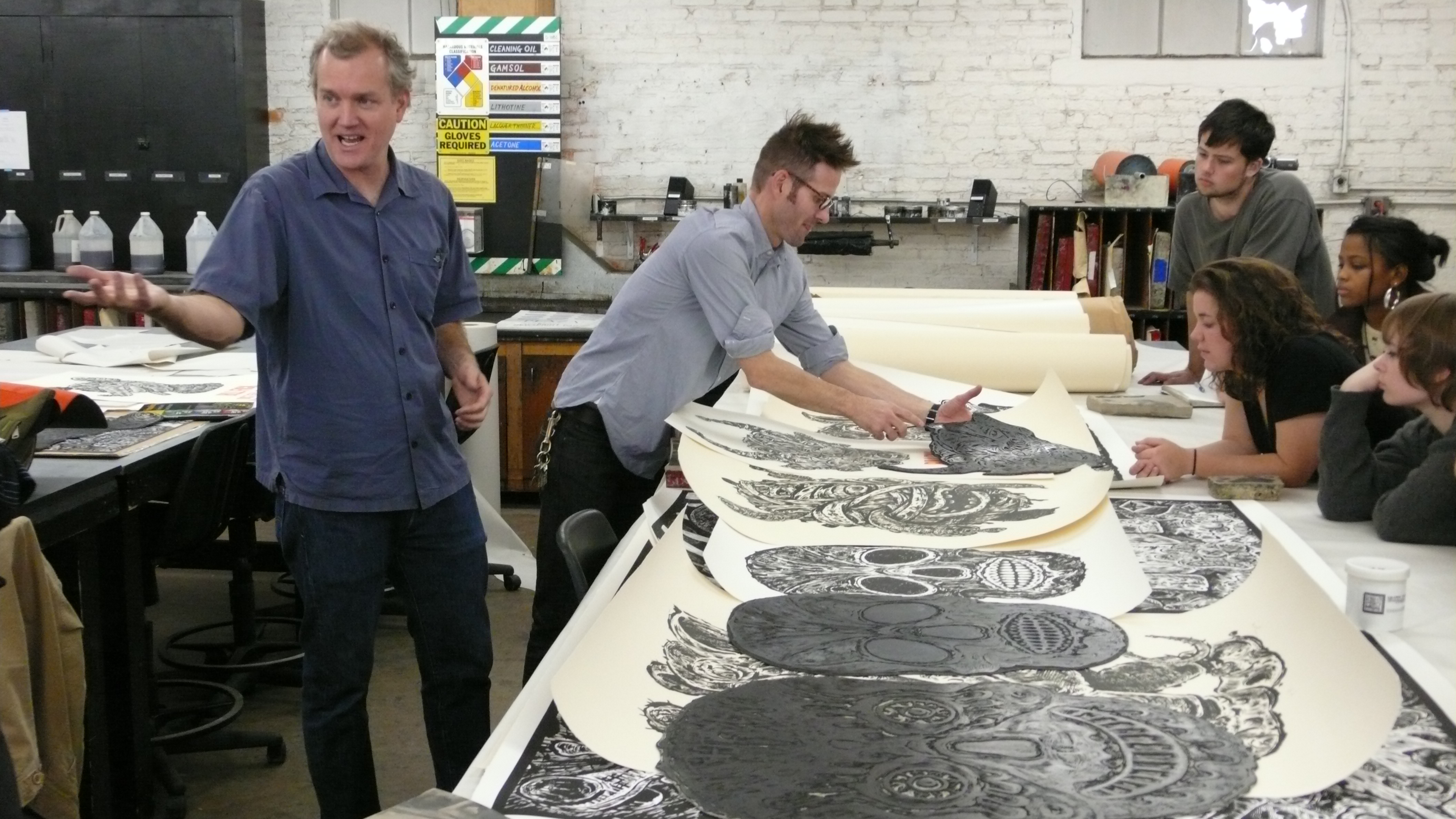 Bill Fick shows off some of his badass linoleum prints.